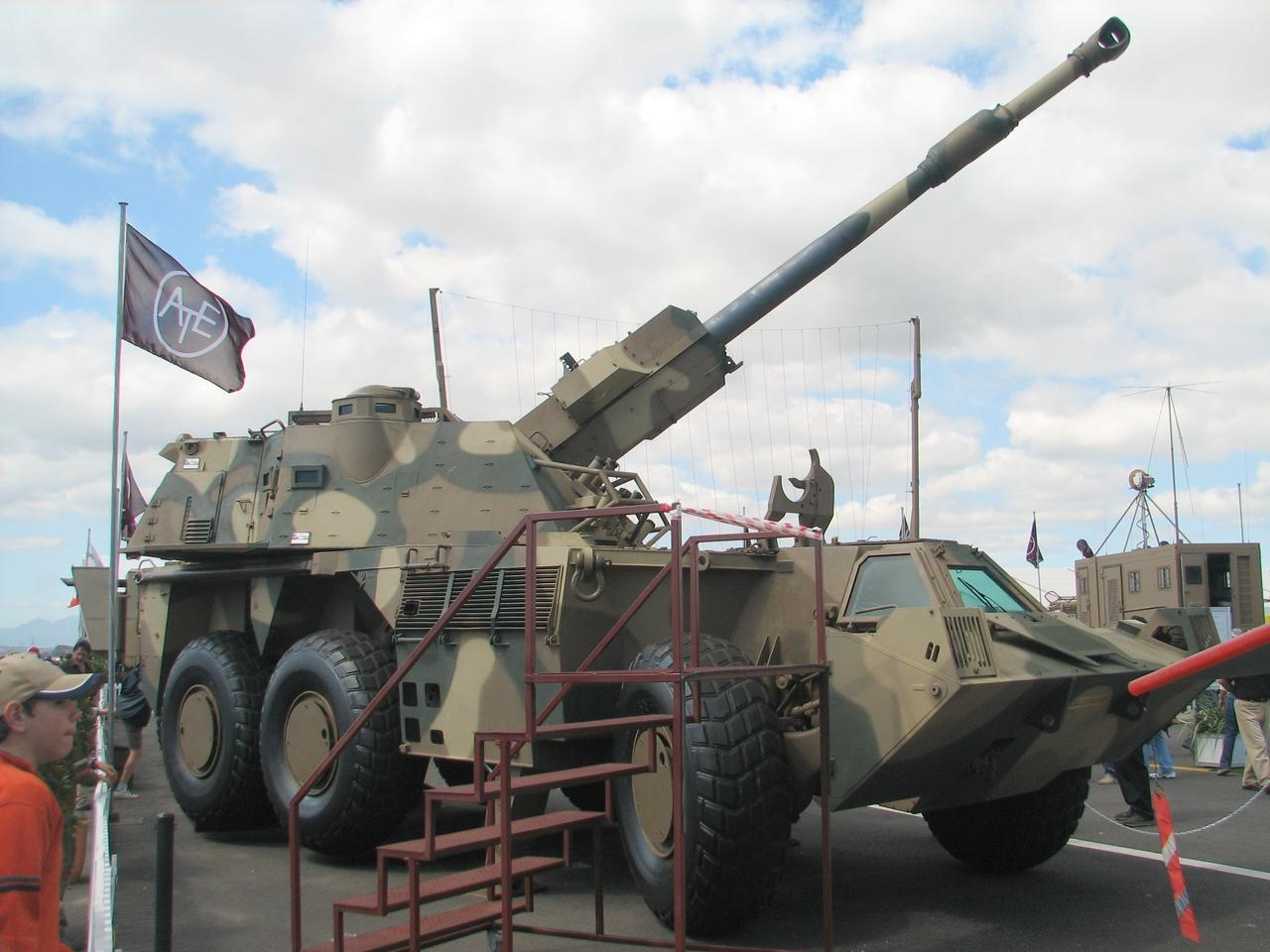 Denel G6-45 155 mm howitzer at Ysterplaat Airshow, Cape Town